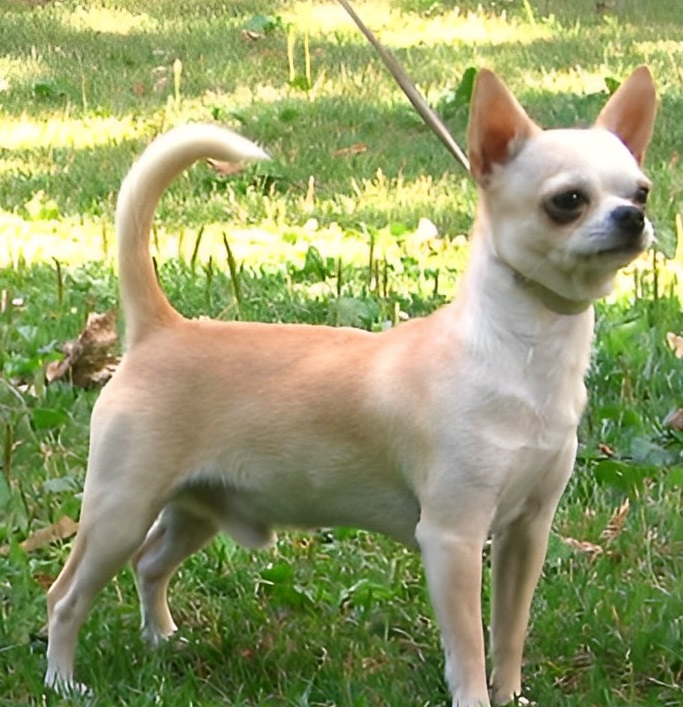 Chihuahua smooth coat (Music Velvet Saragon-PC (Russian kennel "Ot Chempionov")